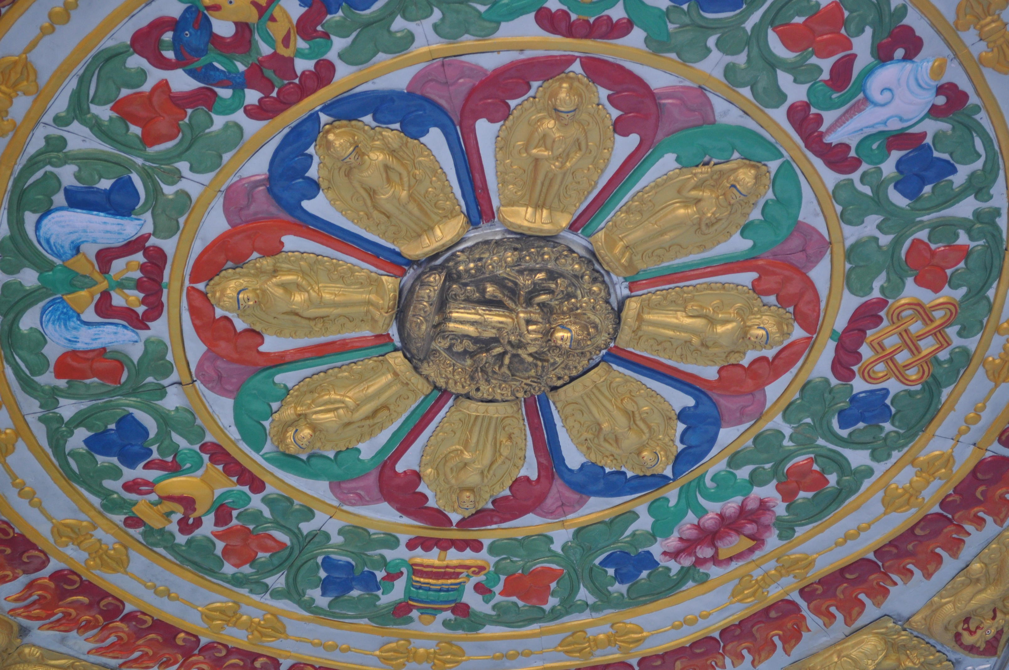 Patta which means the sculpture in which the main deity is surrounded by other deities. It is different from mandala. This colourful mandala is found beneath the roof where the sacred bath of seto macchindranath is done.